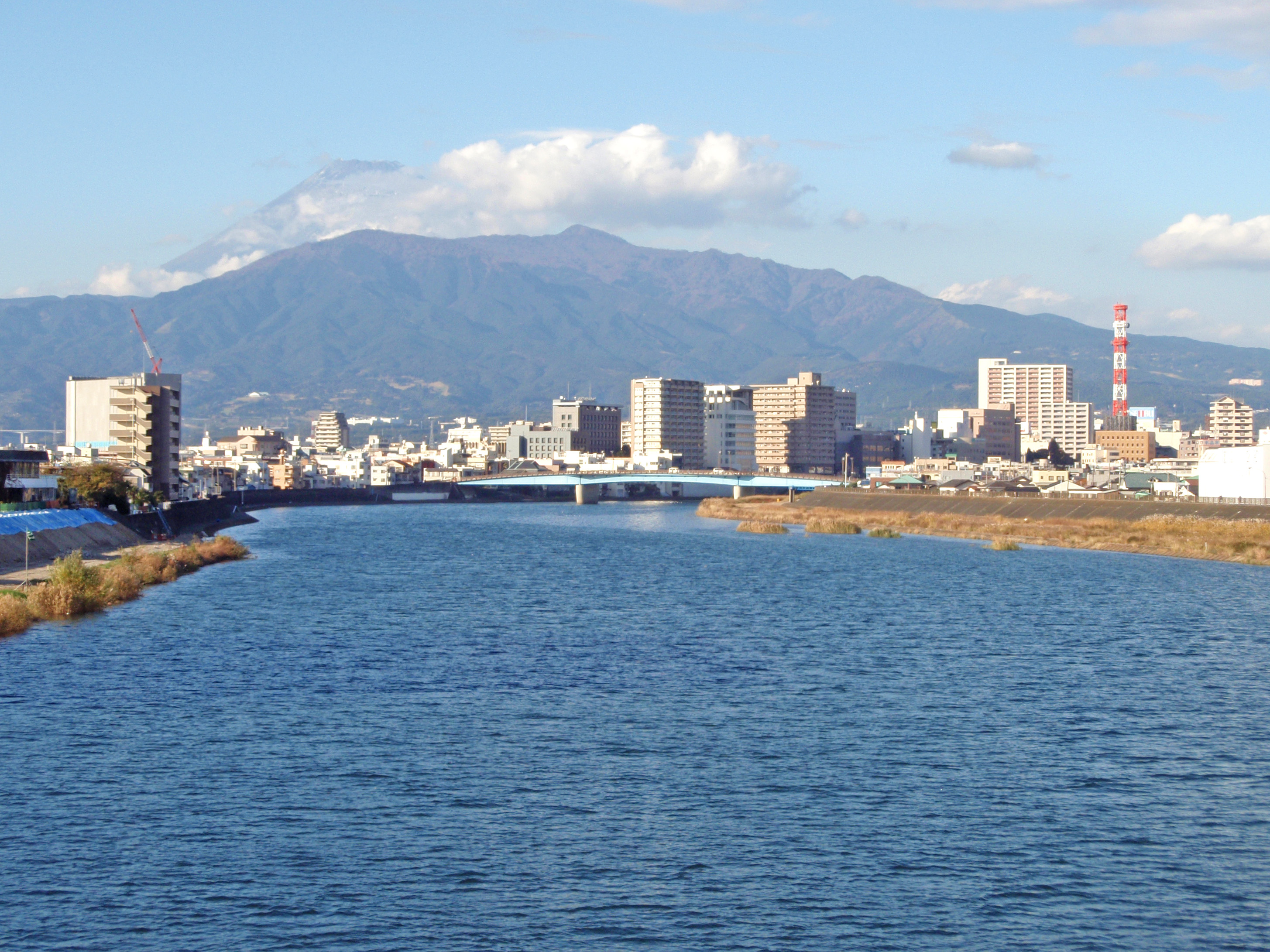 Mount Ashitaka and Kano River and Numazu city's downtown.